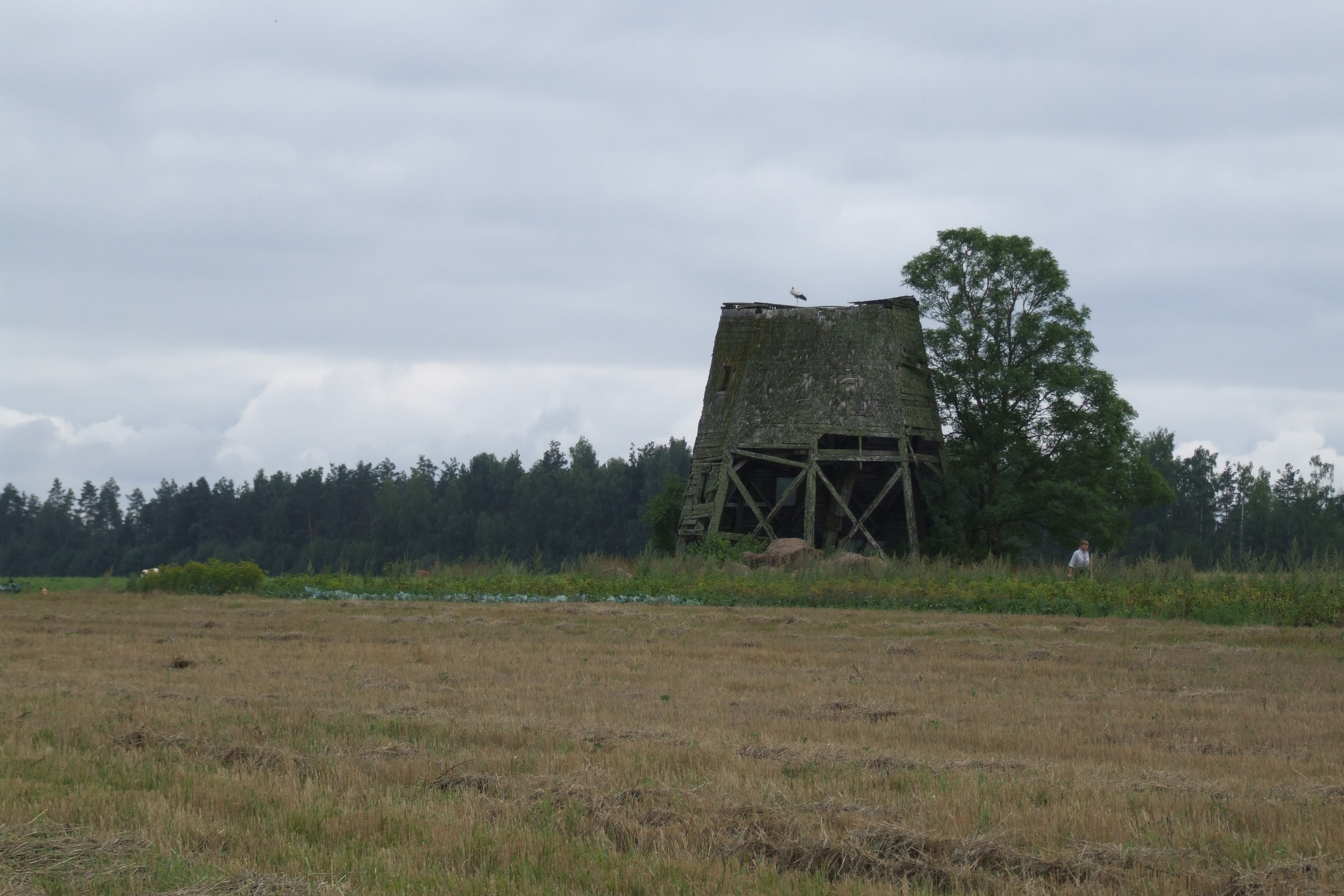 Windmill ruins near Pilāti